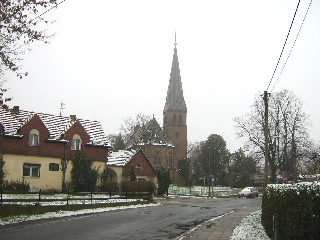 Village Geltow with church, Gemeinde Schwielowsee, Brandenburg, Germany